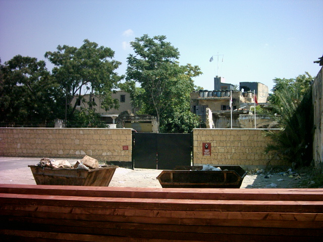 A view of the United Nations Buffer Zone in Cyprus near to the Paphos Gate in Nicosia, seen from the Turkish side.